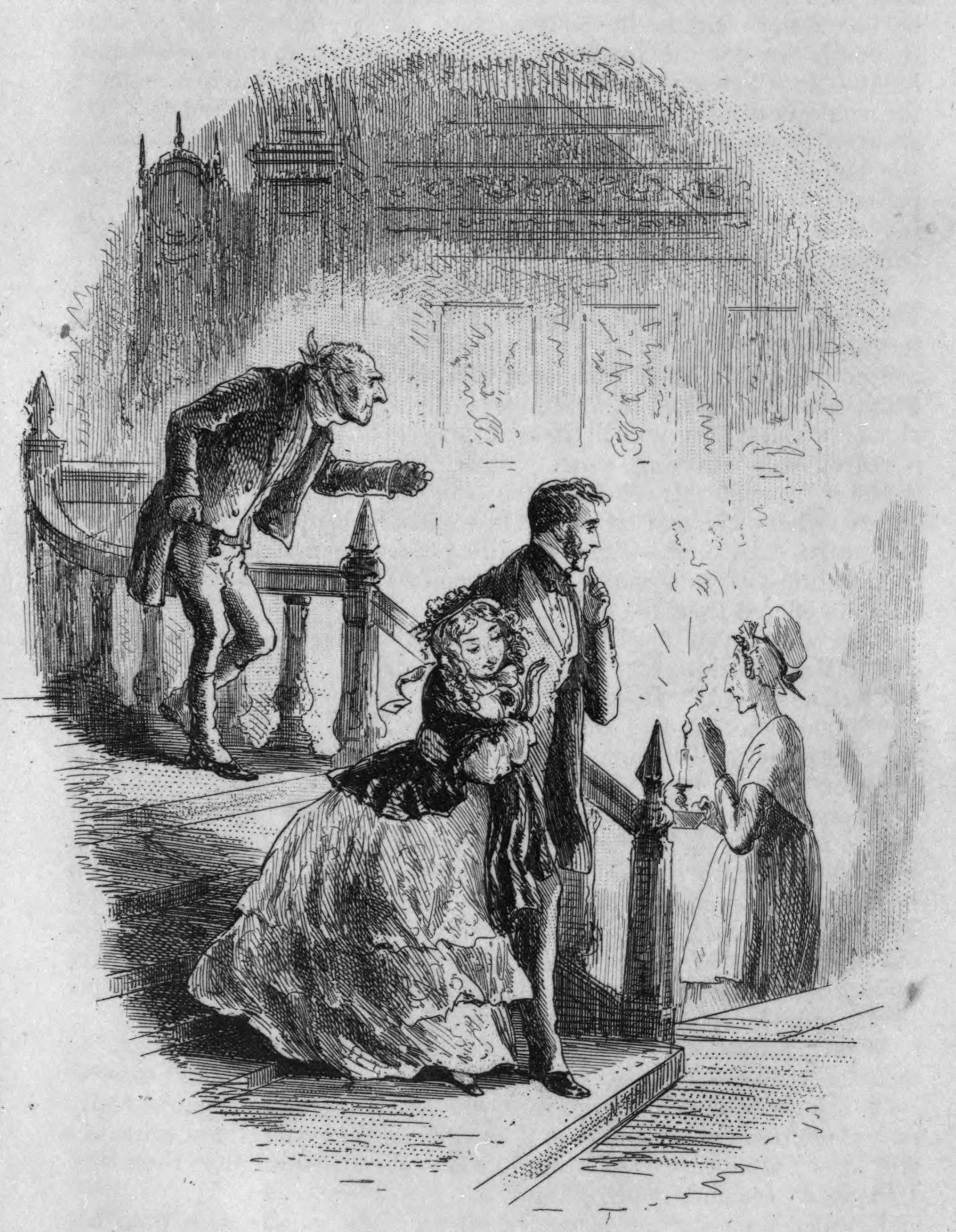 Illustration from the first edition of Little Dorrit by Charles Dickens. See filename for original image title.